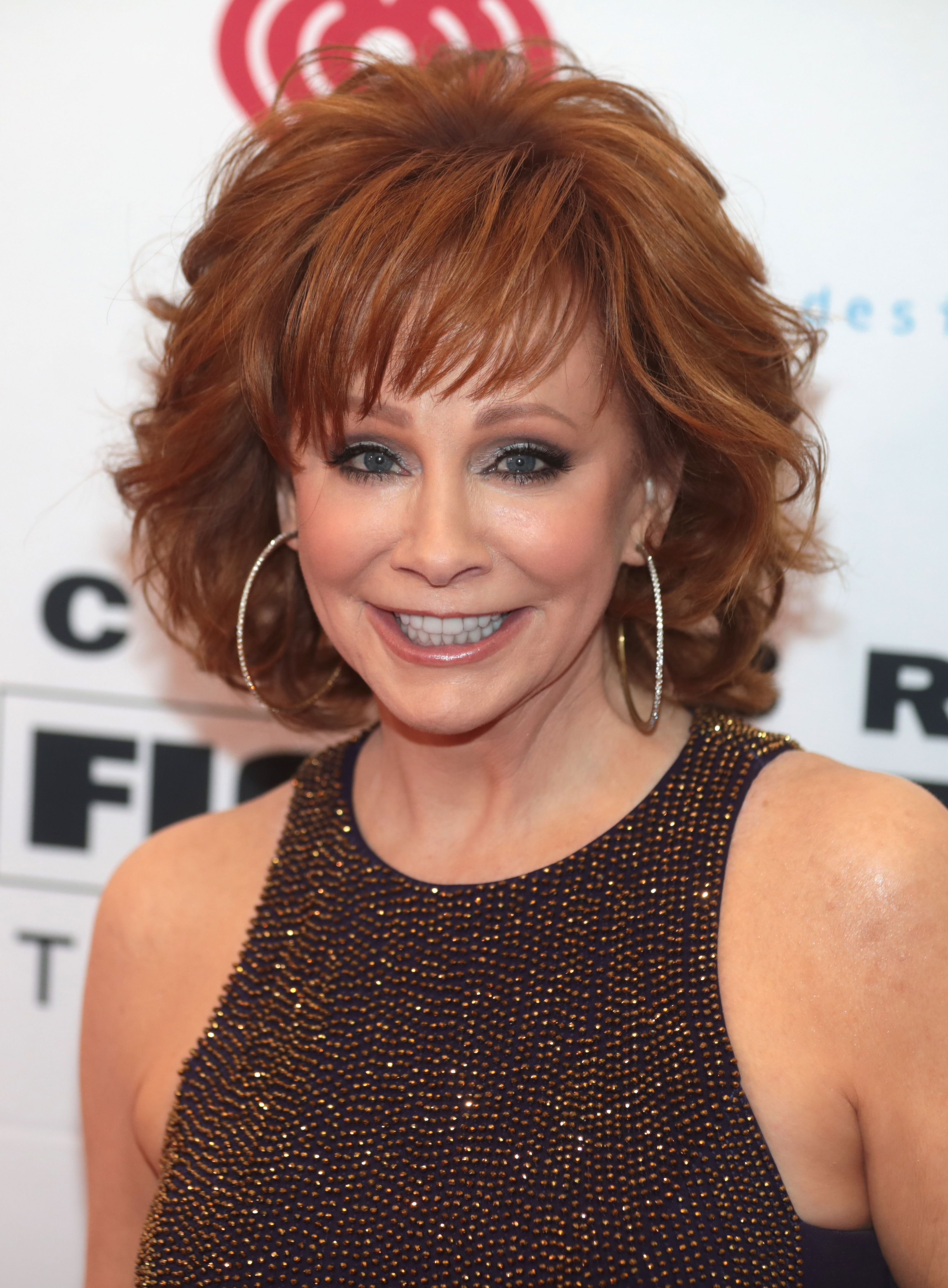 Reba McEntire at Celebrity Fight Night XXV in Phoenix, Arizona.